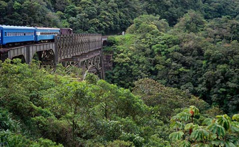 Railway bridge in the Serra do Mar — in Paranaguá, Brasil-Brazil. Atlantic Forest ecoregion flora.